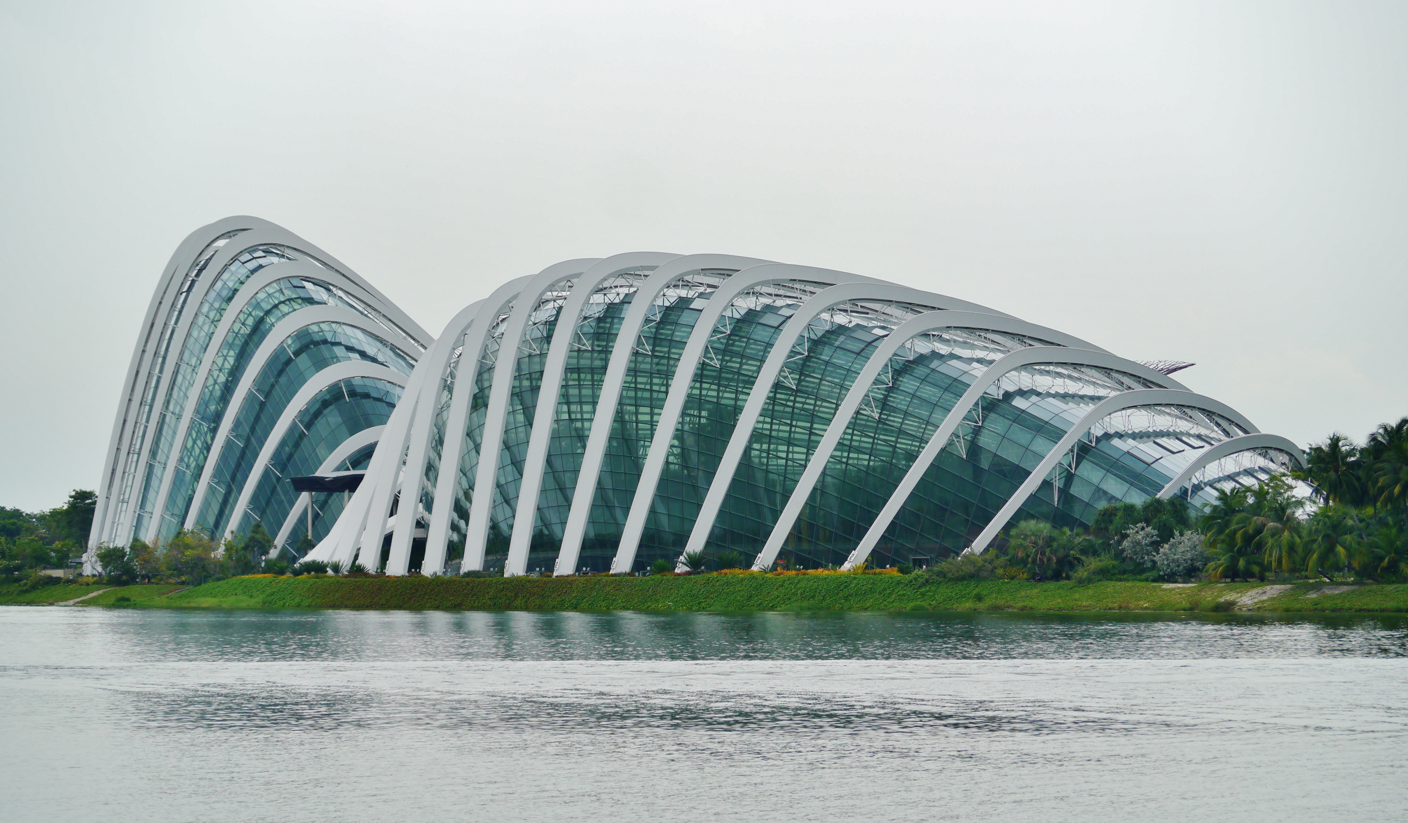 Gardens by the Bay: Cloud Forest & Flower Dome, Singapore